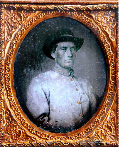 First Lieutenant Daniel W. Melton, Company B, 7th Arkansas Infantry Regiment. Enlistment 26 July 1861 Camp Shaver, Pocahontas Arkansas. Active during all engagements from Shiloh to Franklin Govan's Brigade, Cleburne's Division, Cheatham's Corps, Army of Tennessee. Captured 30th November 1864 Battle of Franklin TN. Oath of Allegiance 17th June 1865 Johnson Island Prison OH at the age of 27 years. Release orders from Johnson Island state he was provided passage by rail or steam boat back to the point closest to his home, which was his father's in Poole's Mill KY. (Henderson County) He married and moved after the war, back to Arkansas, settling the family in southern Yell County. Enterment Mt. Zion Cemetery Briggsville, Arkansas